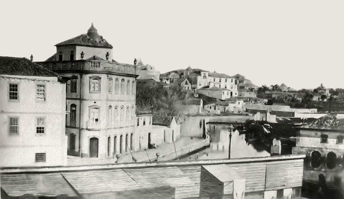 View of the "Cojo" zone (to the right), where the current Lourenço Peixinho Ave. is now located, in Aveiro, Portugal.